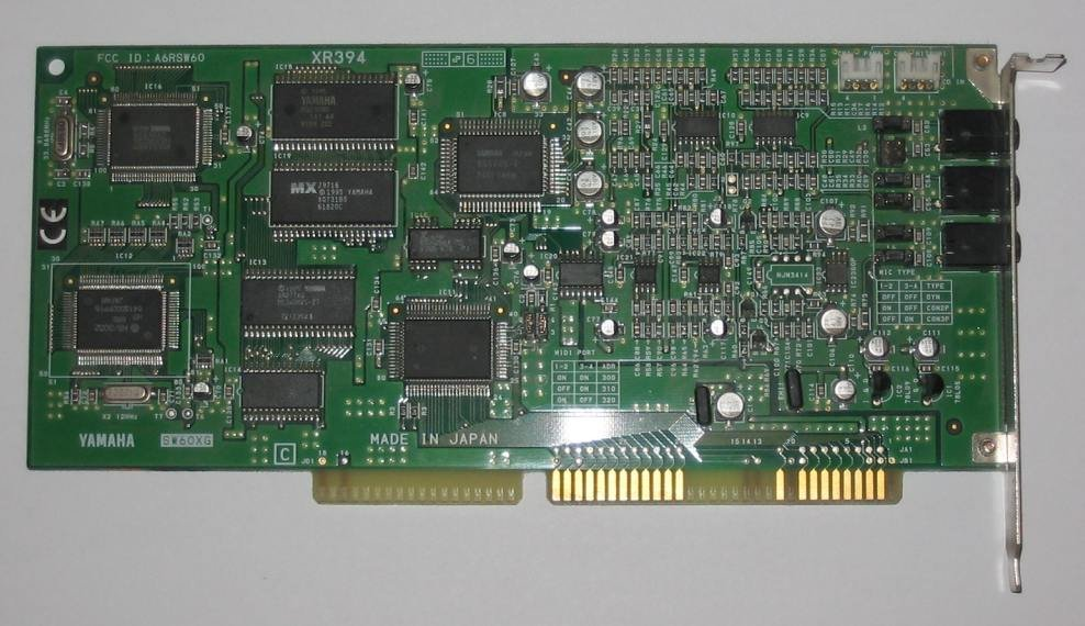 Picture of SW60 xg soundcard